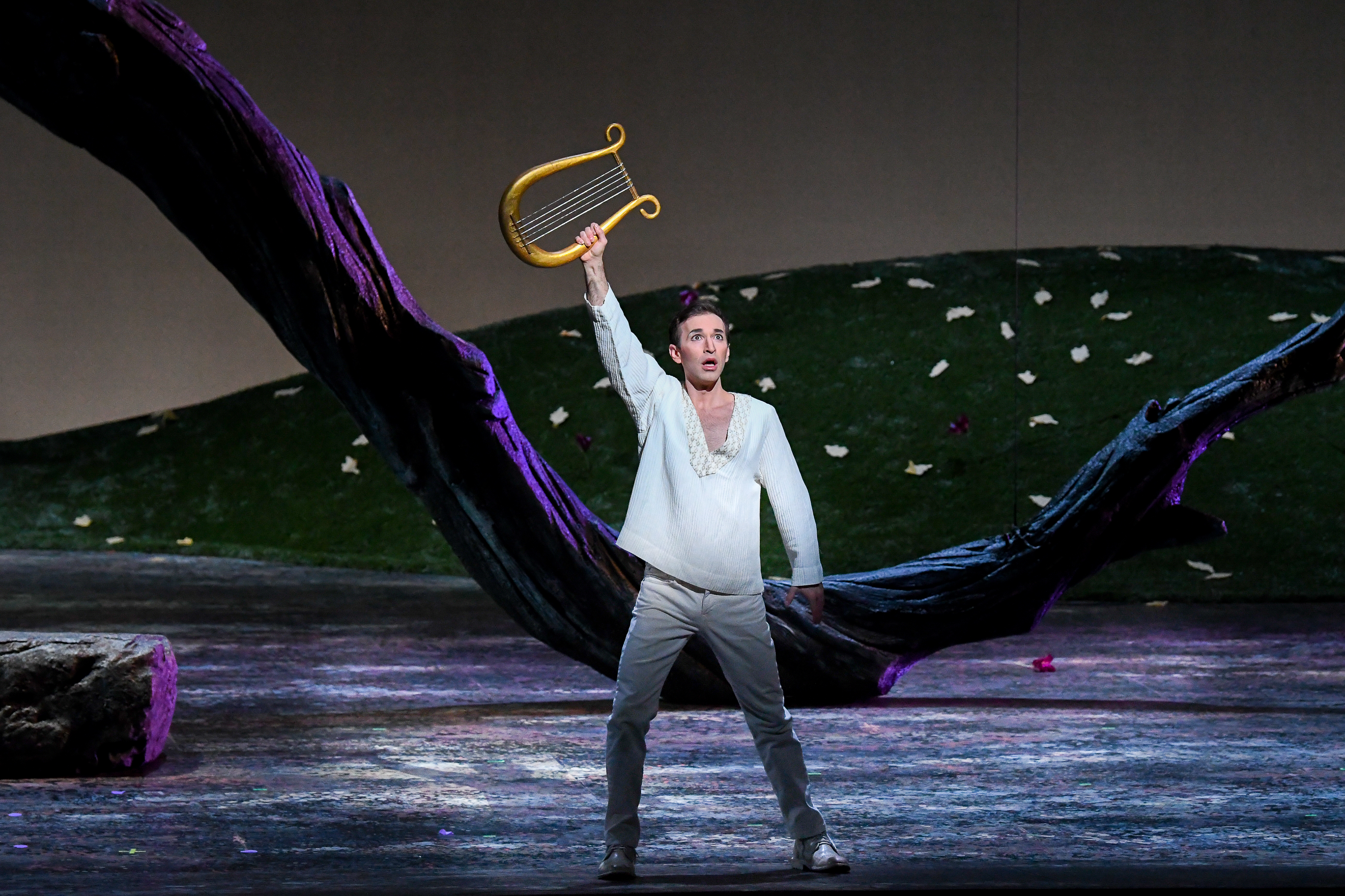 Orfeo (Anthony Roth Costanzo) Photo Credit Daniel Azoulay